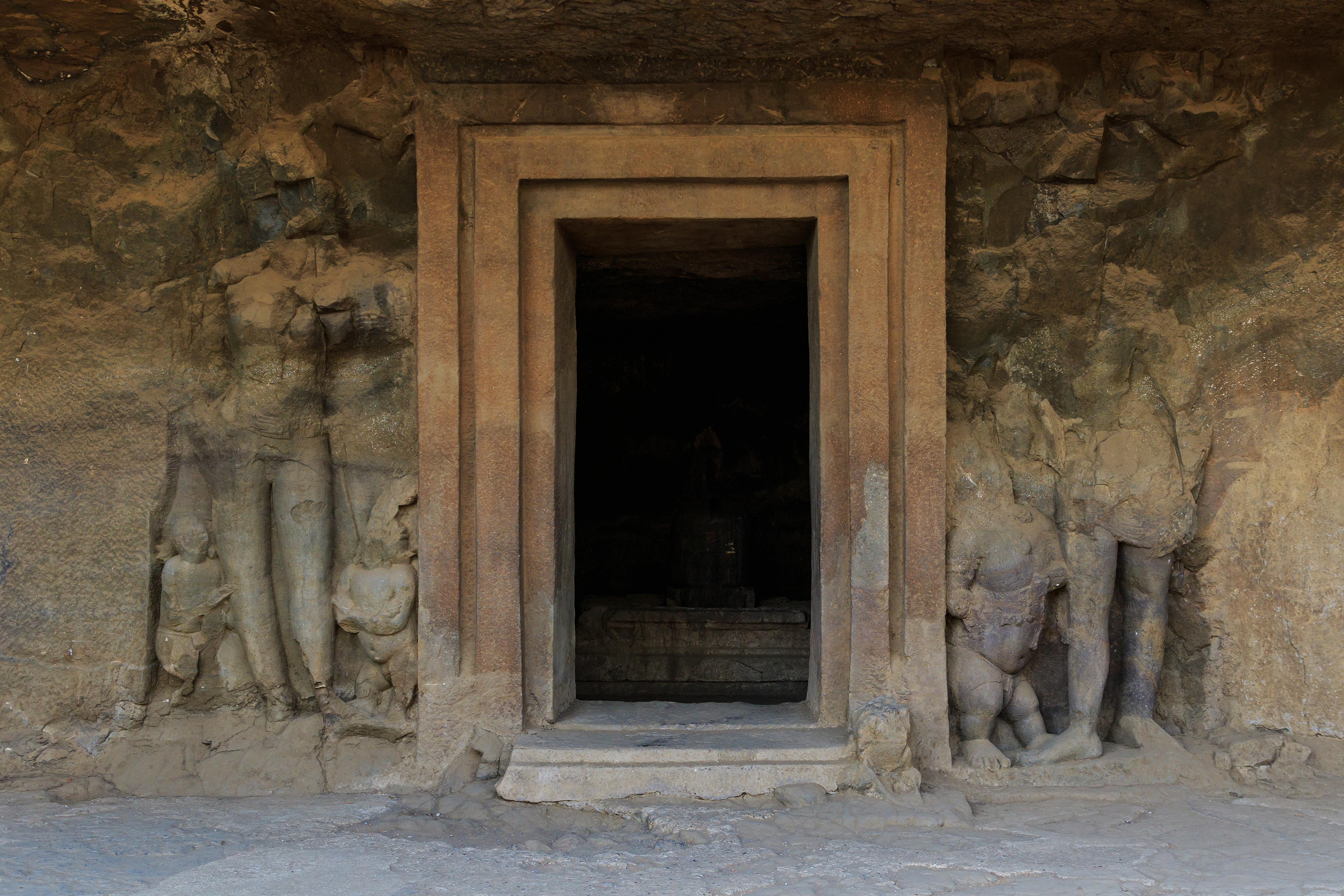 Entrances of Elephanta Caves. Elephanta Island, Maharashtra, India.